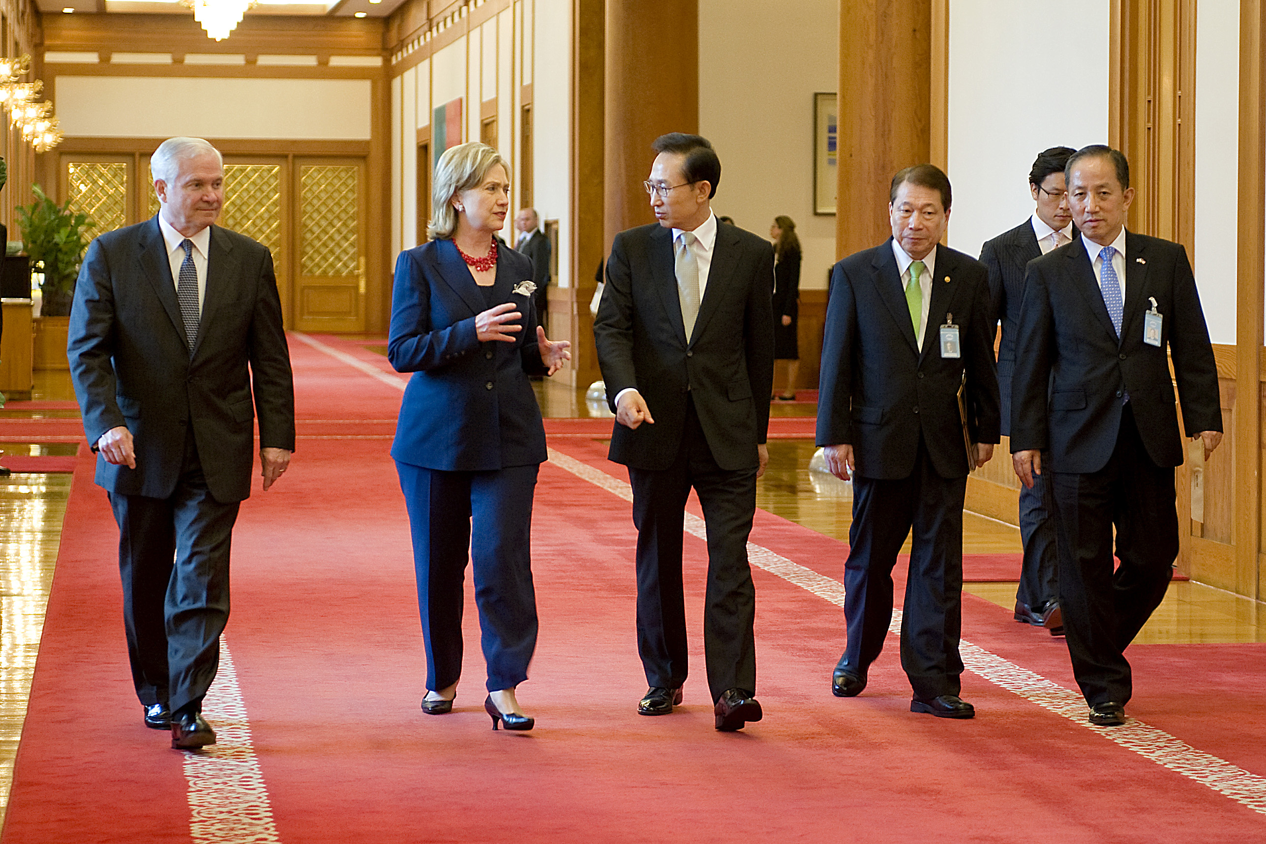 Secretary of Defense Robert M. Gates (left), Secretary of State Hillary Clinton, South Korean President Lee Myung-bak, South Korean Foreign Minister Yu Myung-hwan and South Korean Defense Minister Kim Tae-young walk to a dinner in the presidential house in Seoul, South Korea, on July 21, 2010.